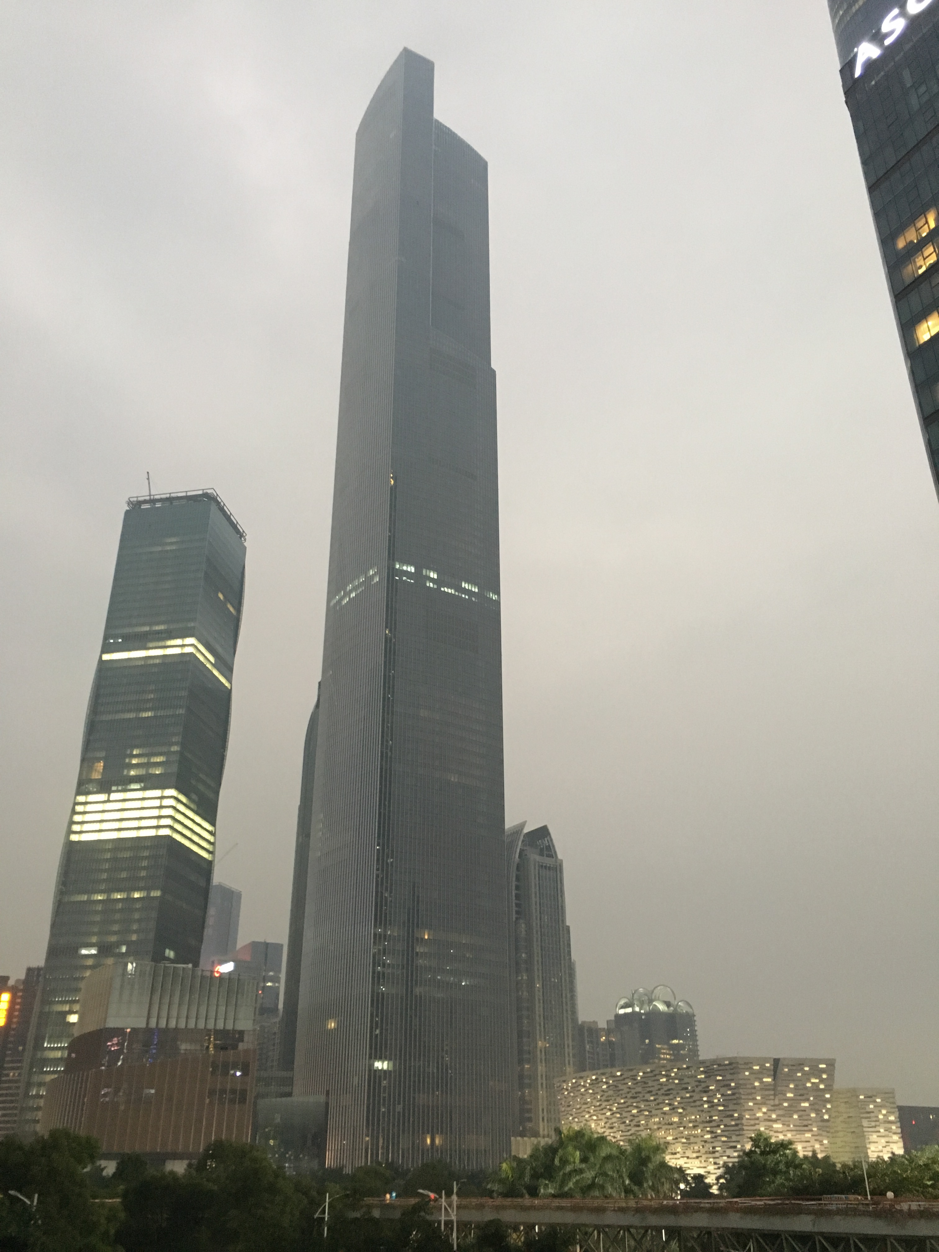 Photo of CTF Finance Centre in Guangzhou, China.